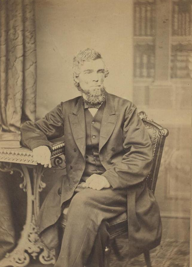 A portrait from the Welsh Portrait Collection at the National Library of Wales. Depicted person: John Evans – British writer and Calvinistic Methodist minister